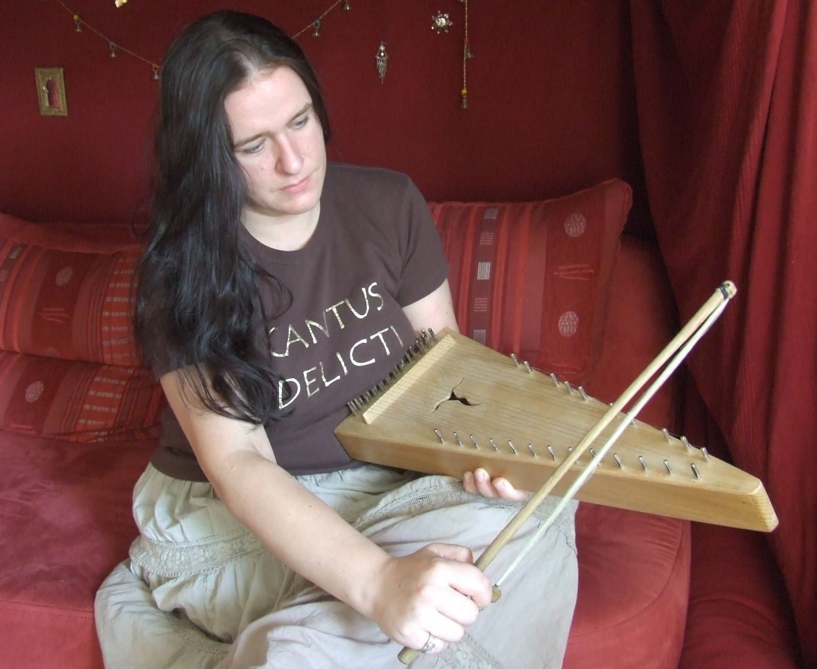 Streichpsalter-Spielerin von den Spielleuten CANTUS DELICTI / Player of a bowed psaltery, of the mediaeval band CANTUS DELICTI.